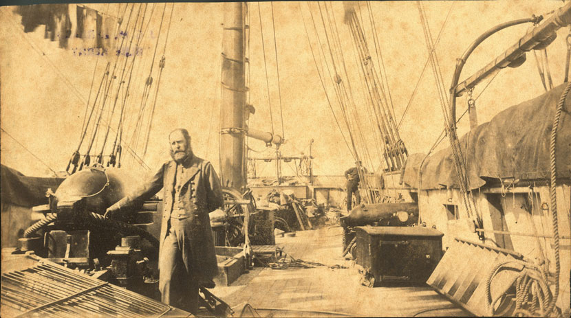 First Lieutenant John McIntosh Kell, who had served with Semmes in his previous command, the cruiser Sumter, standing by the eight inch smooth bore gun with his hand on the beech-rope. The engine-room skylight can be seen with bars over the glass. Note the washing hanging in the rigging.